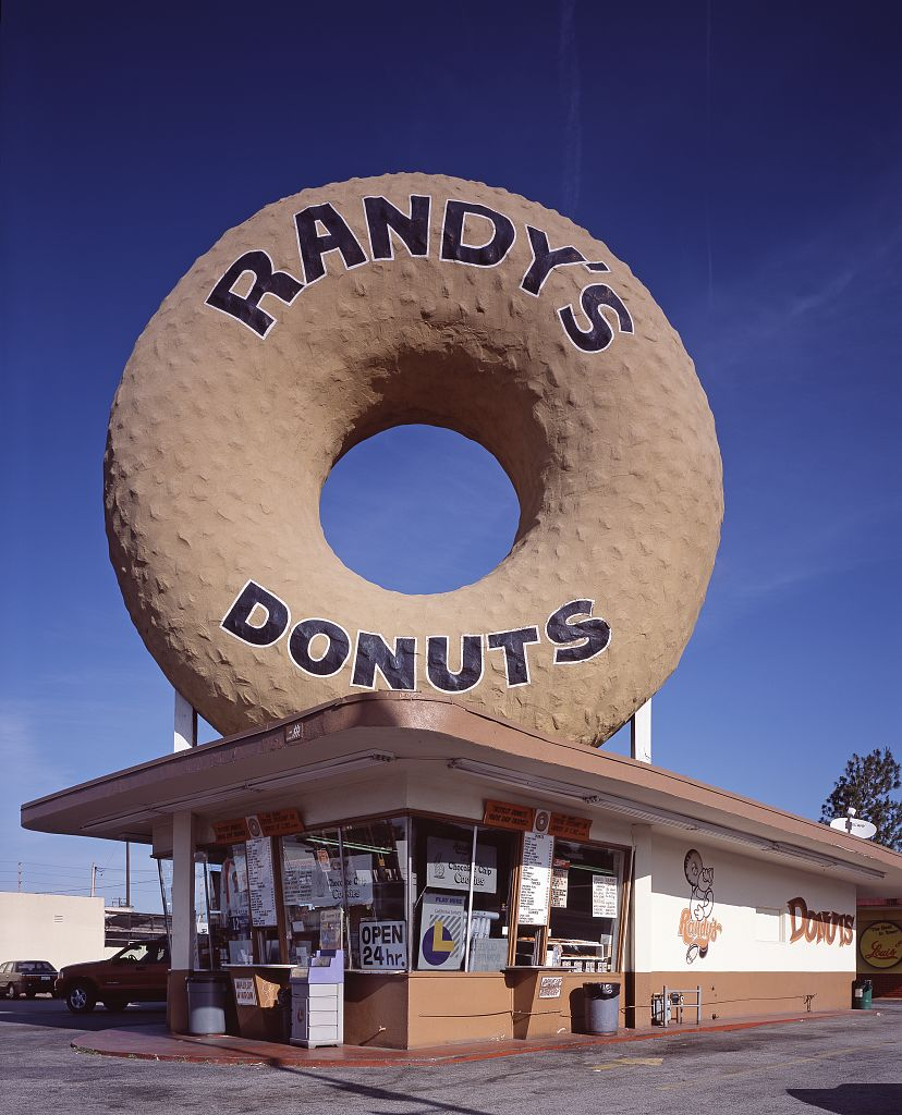 "Randy's Donuts", Inglewood, California (Novelty architecture)